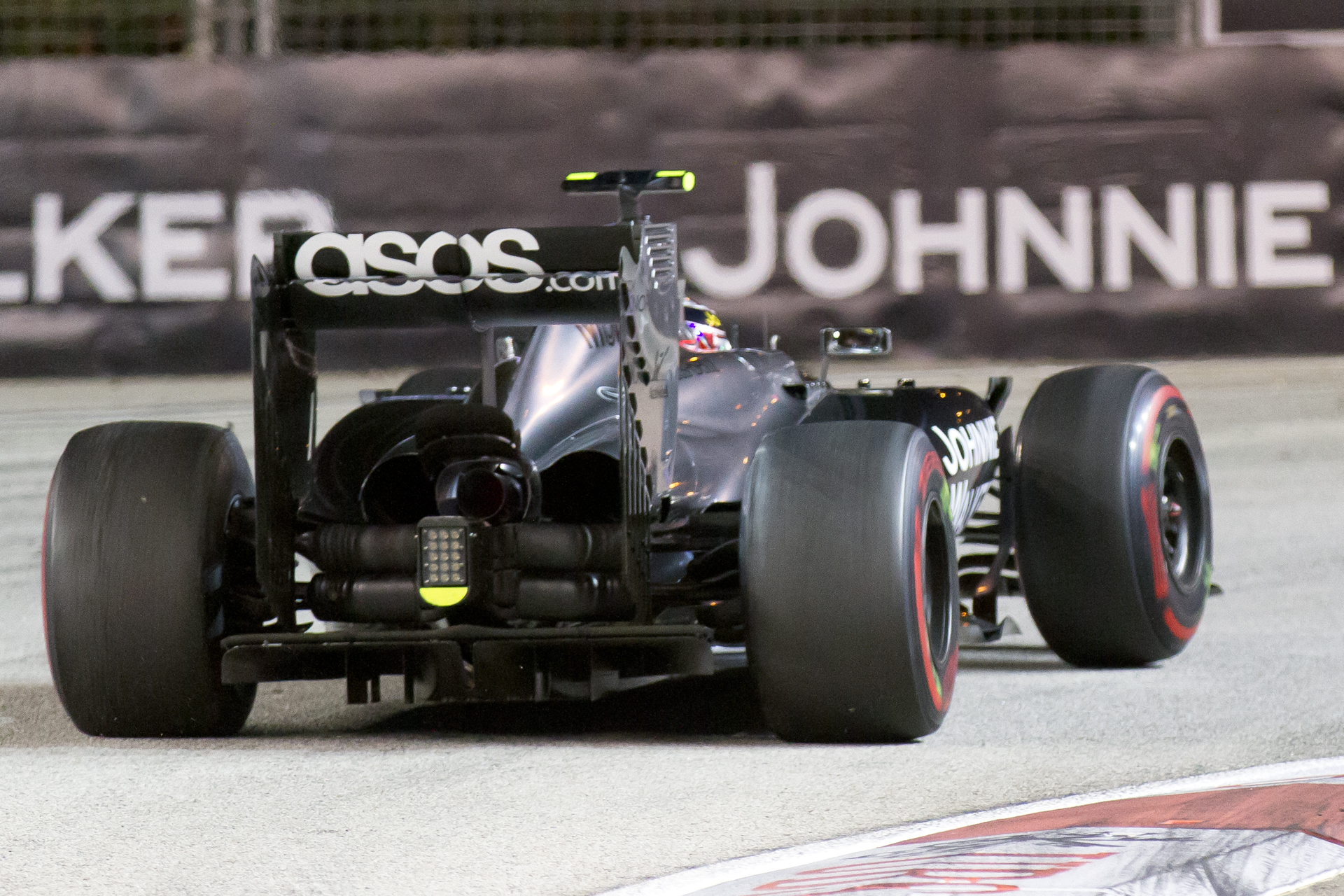 Formula One 2014 Rd.14 Singapore GP: McLaren MP4-29 rear view